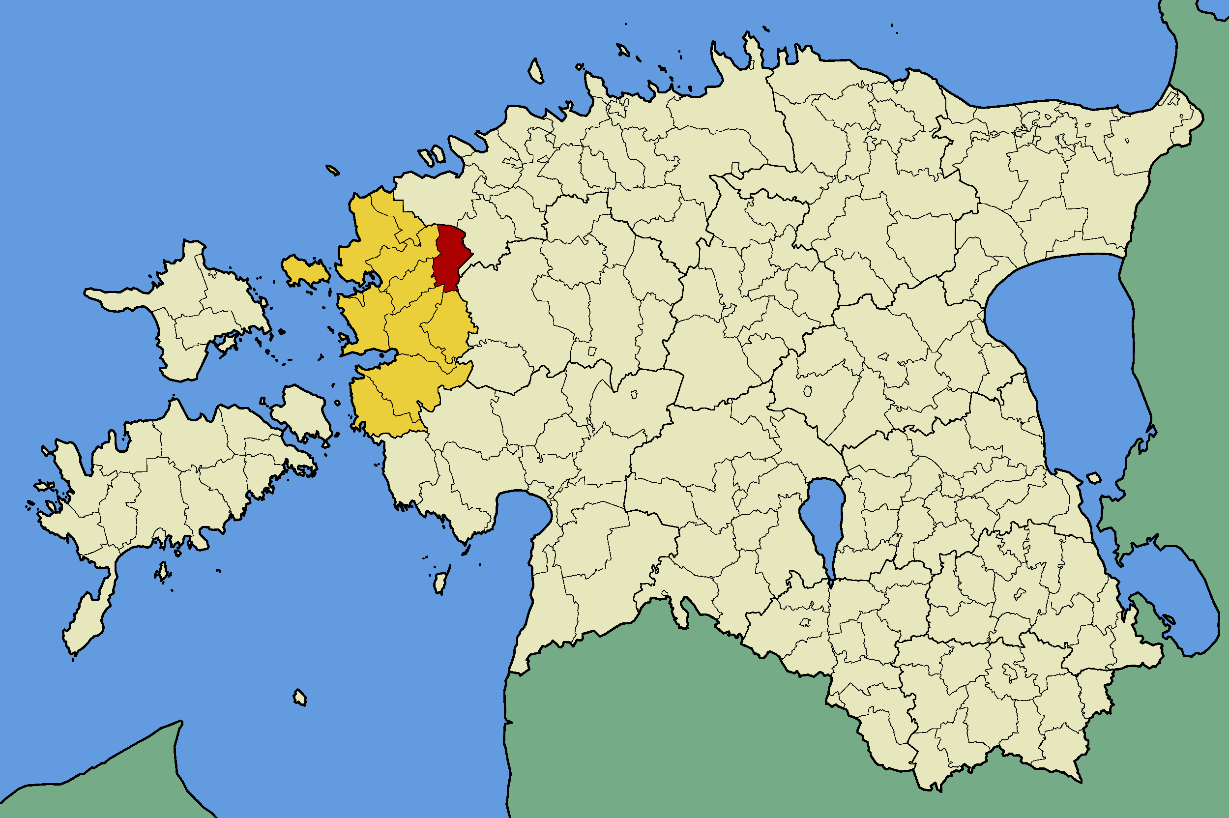 Map of Estonia with borders of municipalities (parishes). Lääne county and Risti municipality emphasized.